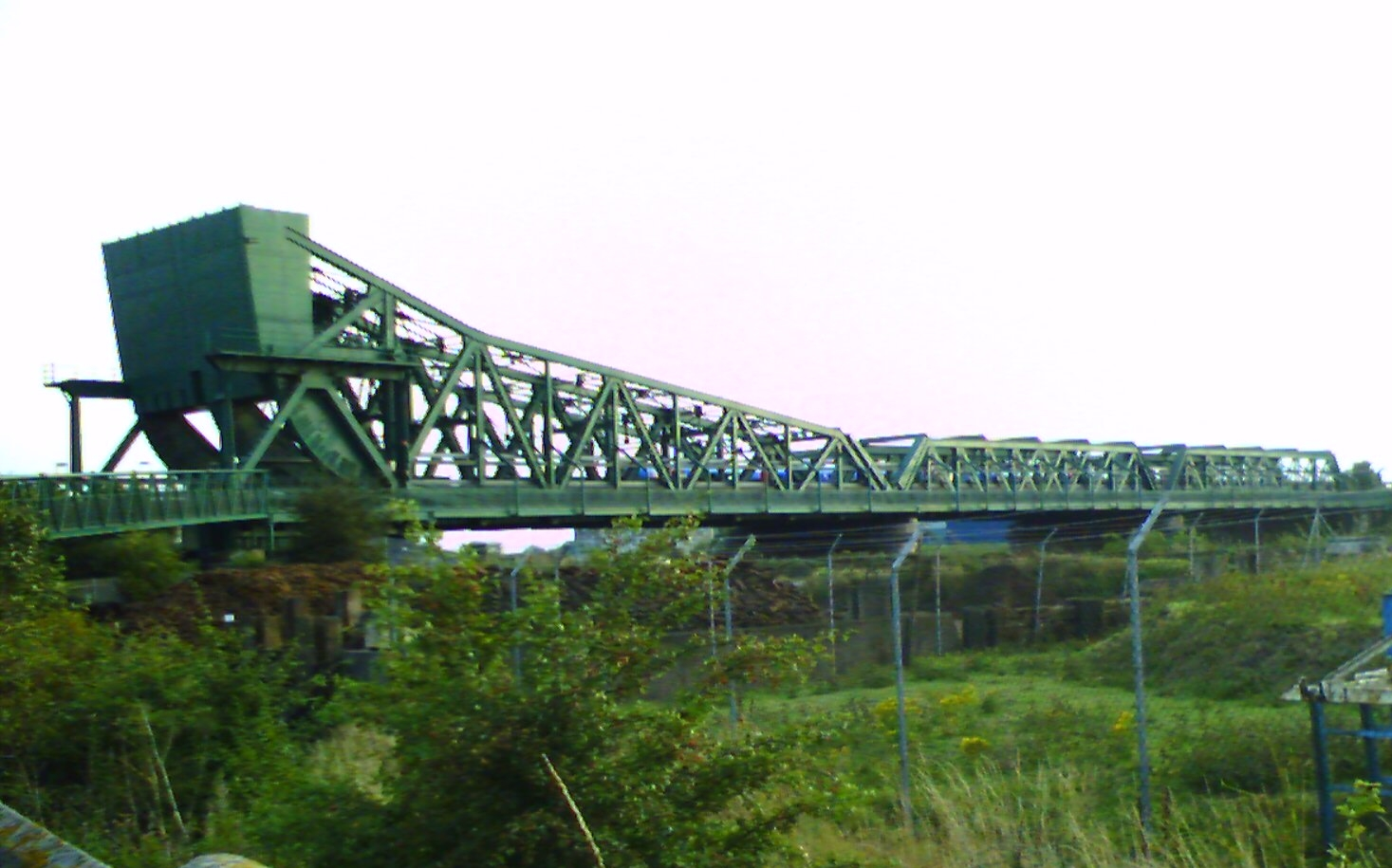 King George V Bridge, Keadby. Photo by E Asterion u talking to me?